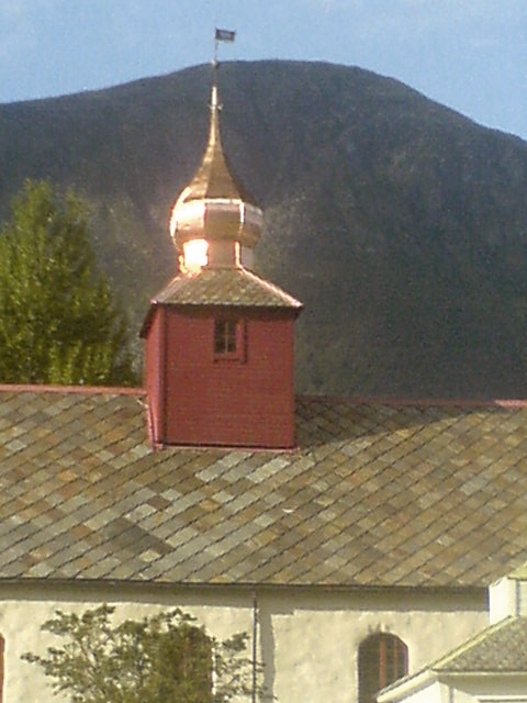 The church in Isfjorden, Norway